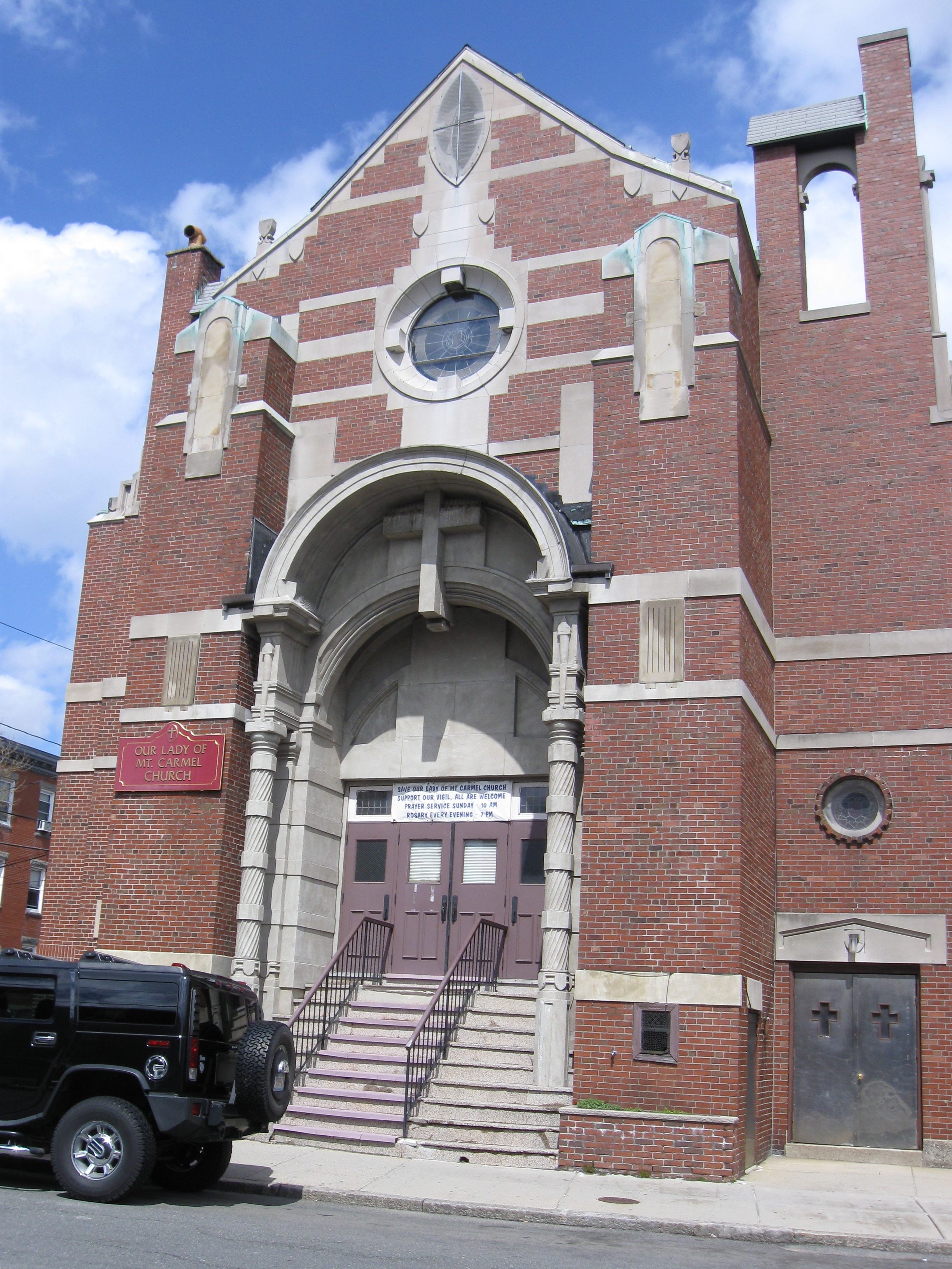 Our Lady of Mount Carmel Church, a former Roman Catholic church located at 128 Gove Street East Boston, MA 02128.